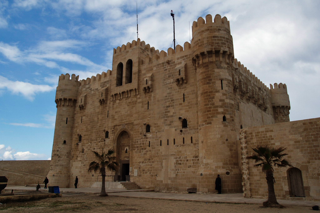 Alexandria/Egypt, Fort Qait Bey own photo, feb 12, 2005 photo: nomo/michael hoefner